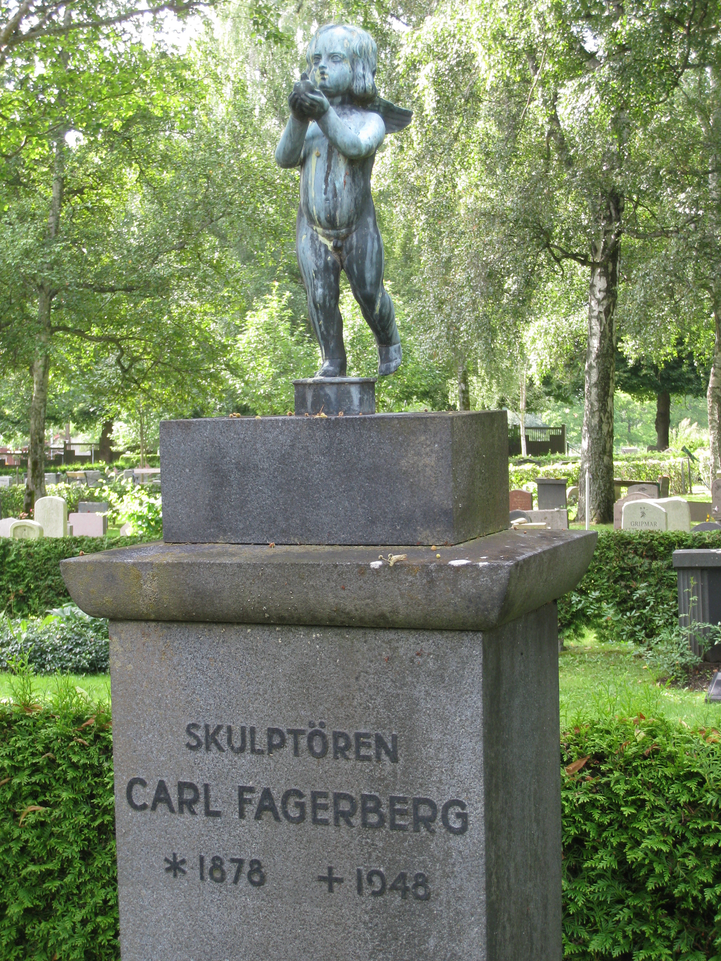 Picture of Carl Fagerberg's grave at Bromma kyrkogård, Bromma. Carl Fagerberg (1878-1948) was a Swedish sculptor. His memorial stone crest is decorated of one of his own sculptures.